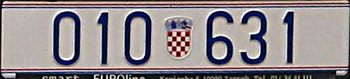 Croatian police Smart